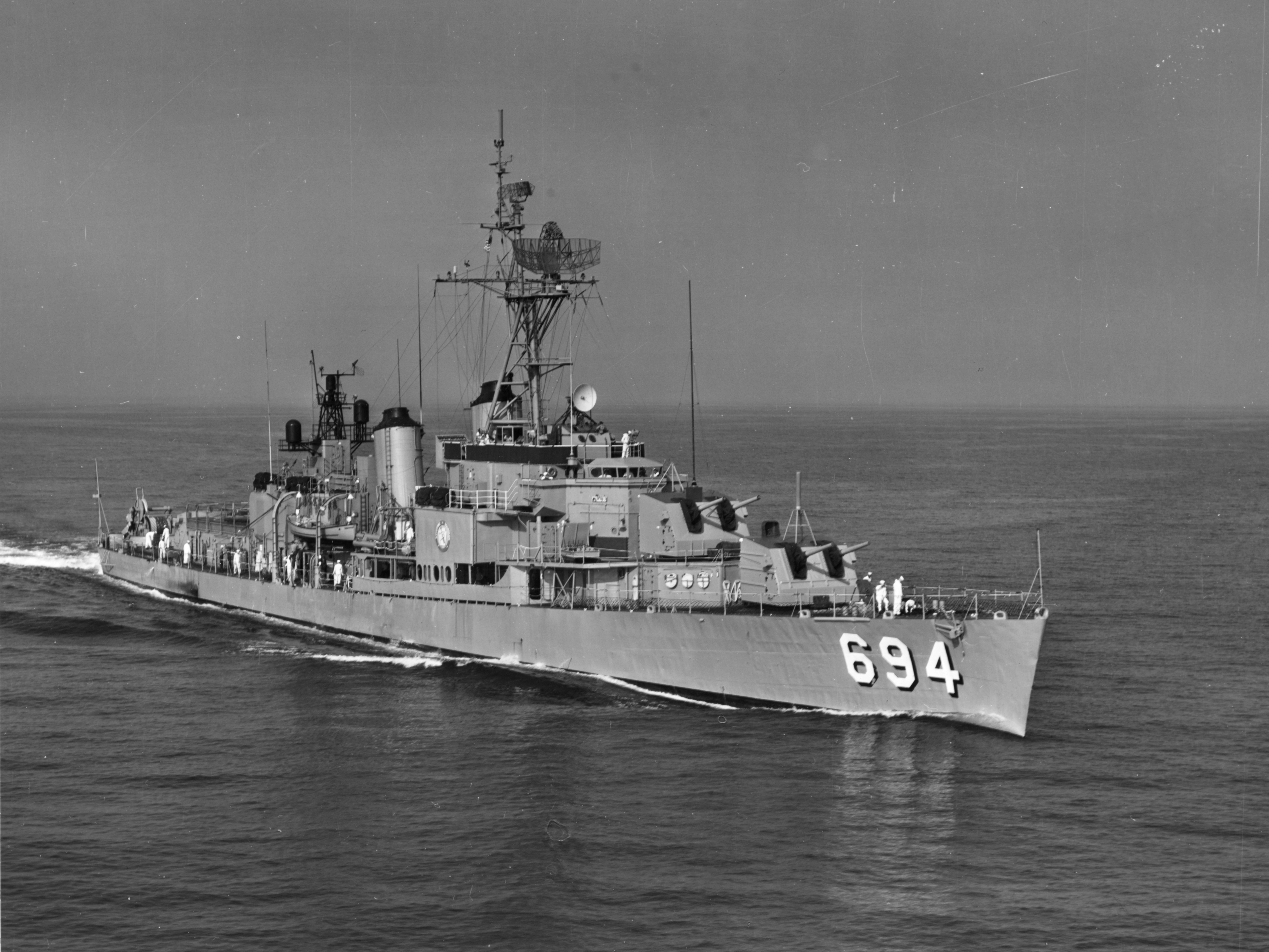 The U.S. Navy destroyer USS Ingraham (DD-694) underway at sea on 22 June 1962, following her FRAM II-conversion.